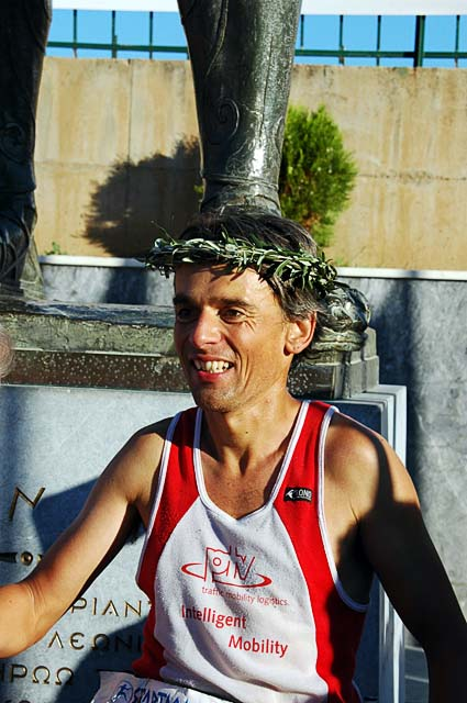 Jens Lukas, at his winning of the Spartathlon race in 2004